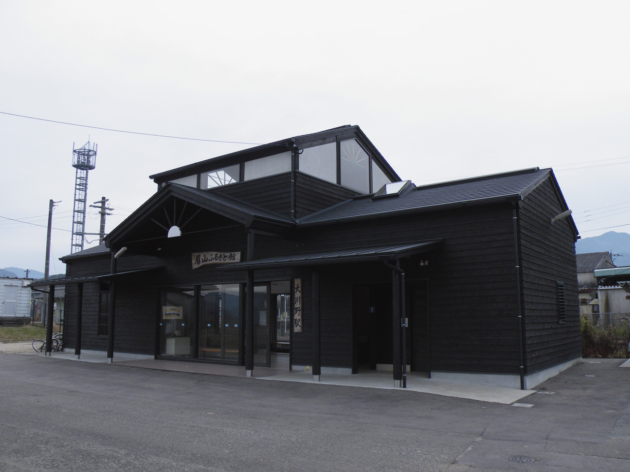 JRKyushu Chikuhi Line Okawano Station